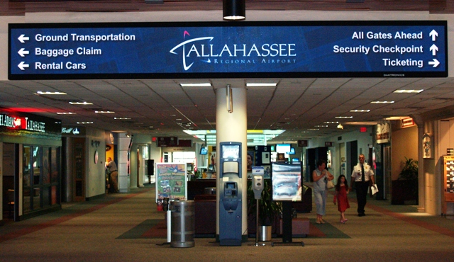 Tallahassee International Airport